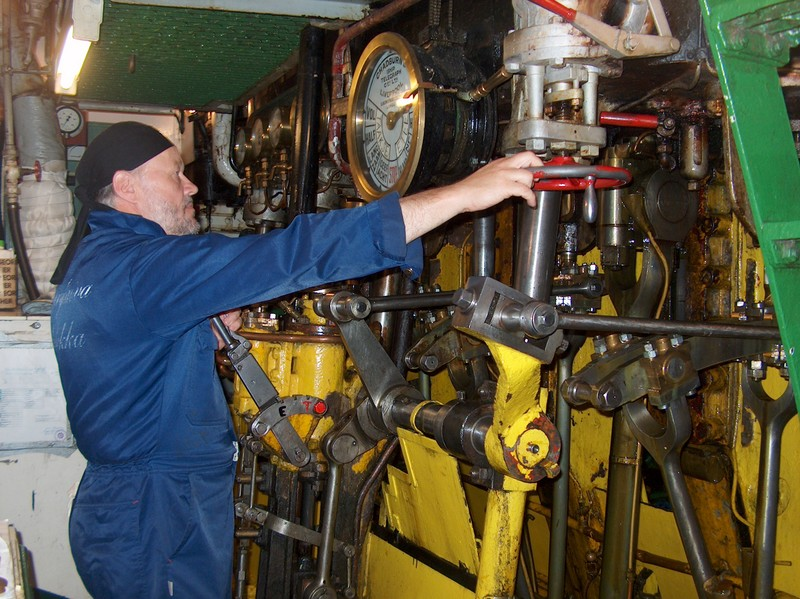 The engine room of the SS Ukkopekka